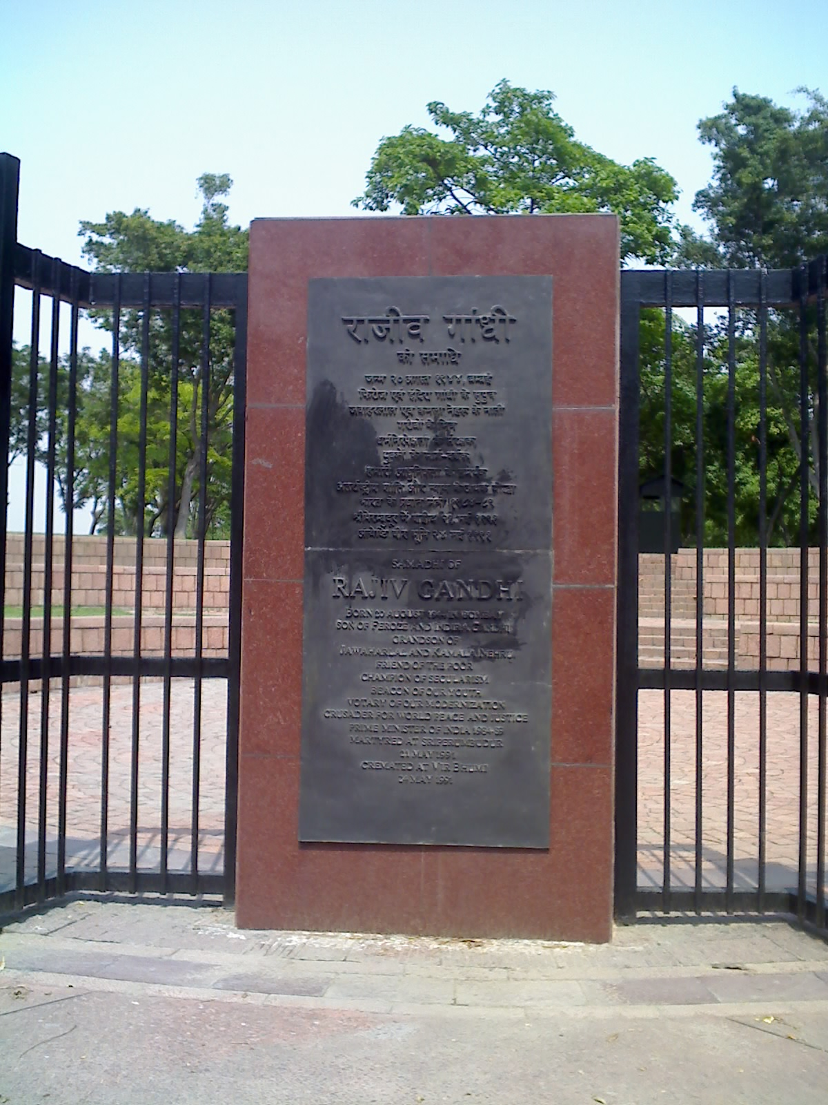 Burial memorial of Indian leaders, Vir bhumi , Delhi